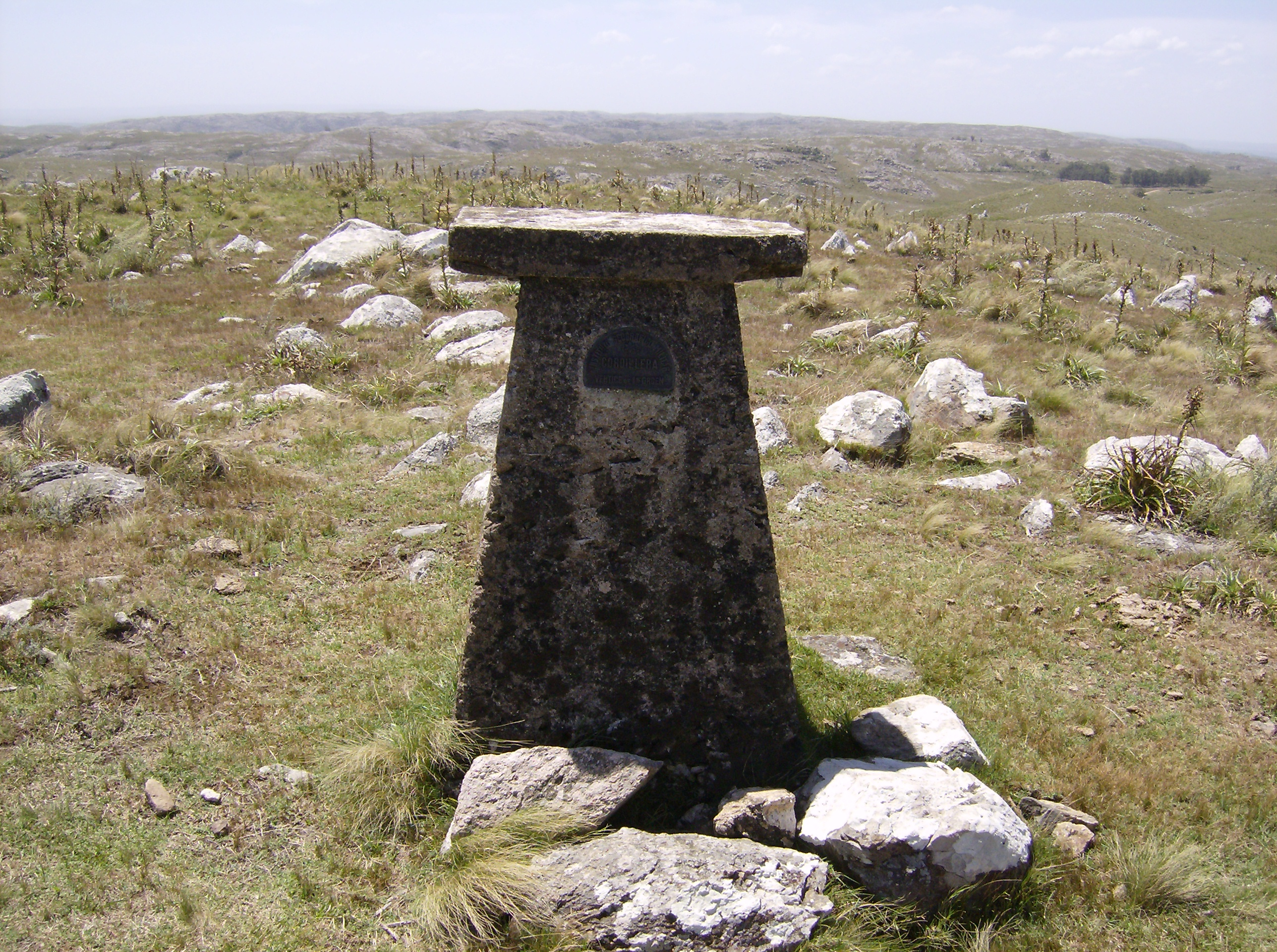 The summit of the Cerro Catedral (or Cerro Cordillera), the highest point of Uruguay, with an altitude of 513.66 metres (1,685.24 feet.)